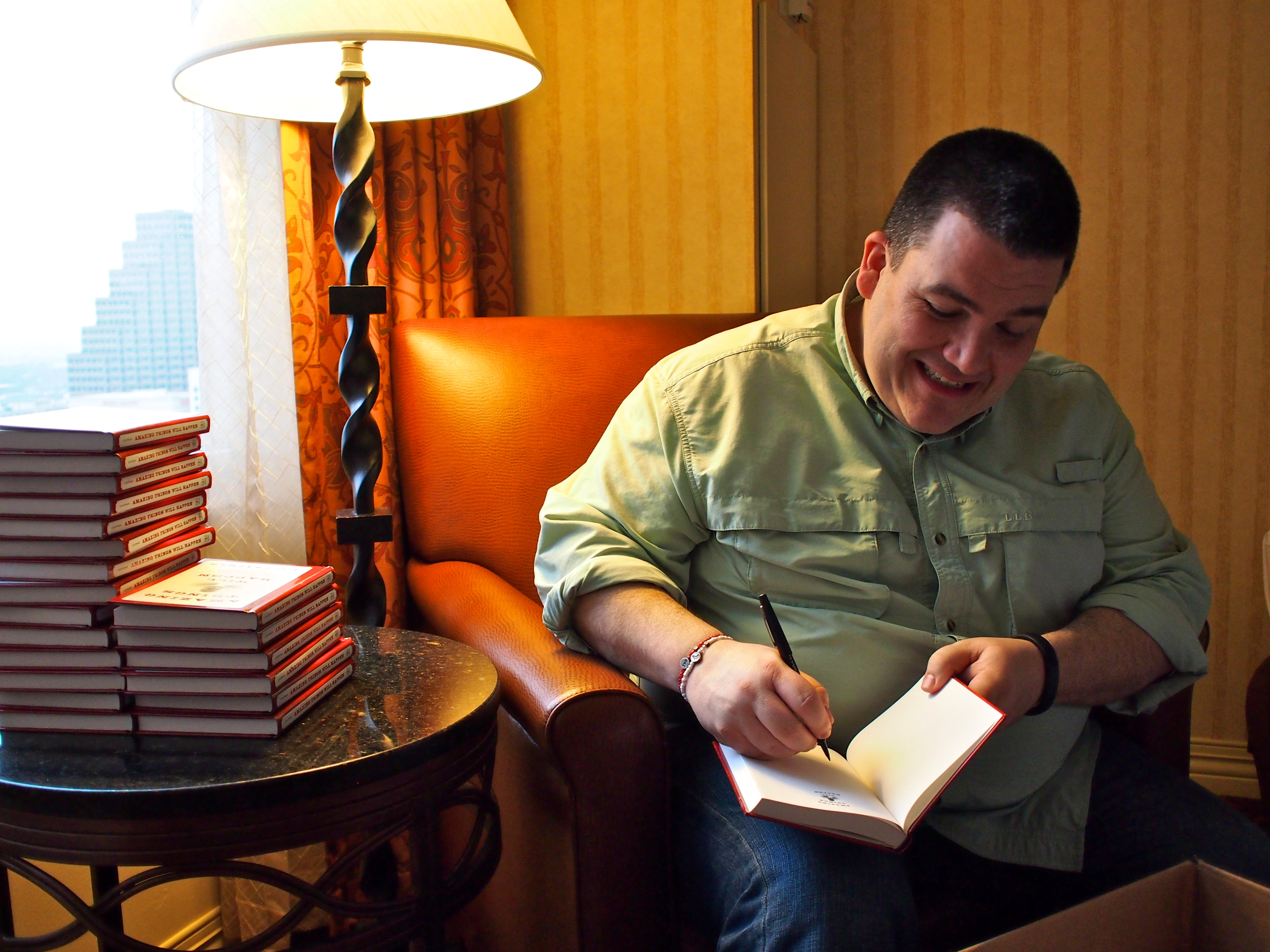 @cc_chapman C.C. Chapman Signs Books, SXSW 2013